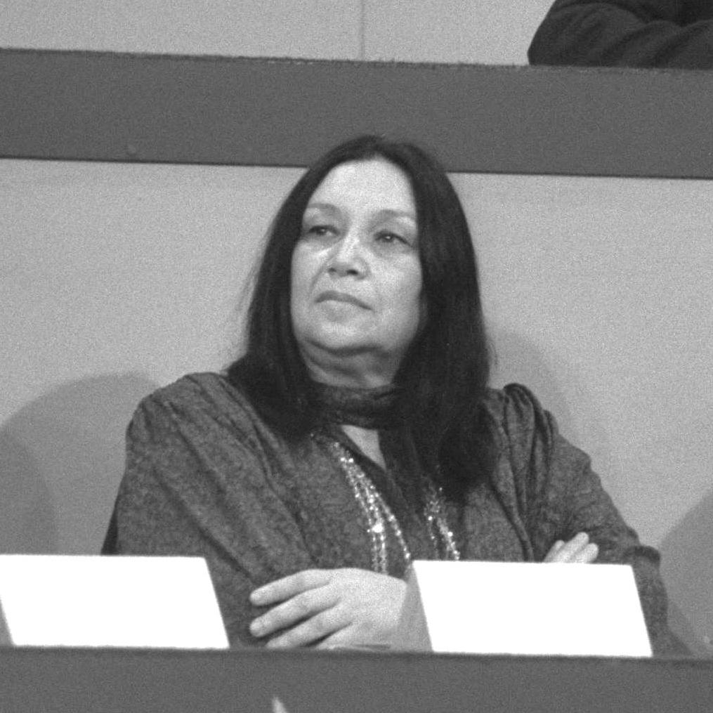 The 1983 Israel prize award ceremony at the Jerusalem Theatre on Israel's 35th indepedendence day. in the photo, the recipients of the prize on stage.